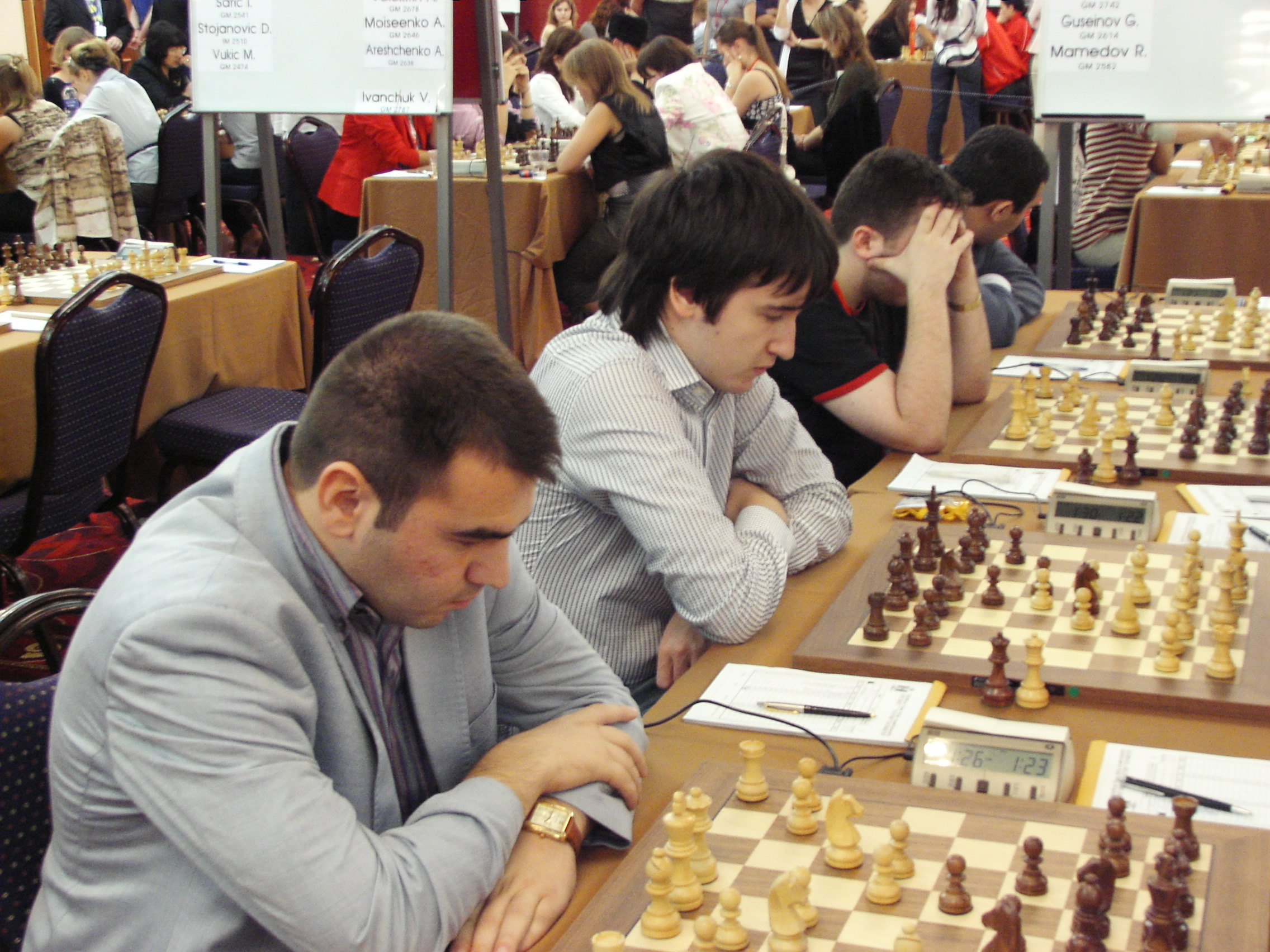 Shakhriyar Mamedyarov and Teimour Radjabov during the EuroChess 2007